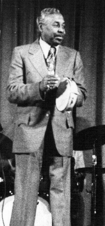 Singer, drummer and bandleader Roy Milton in France